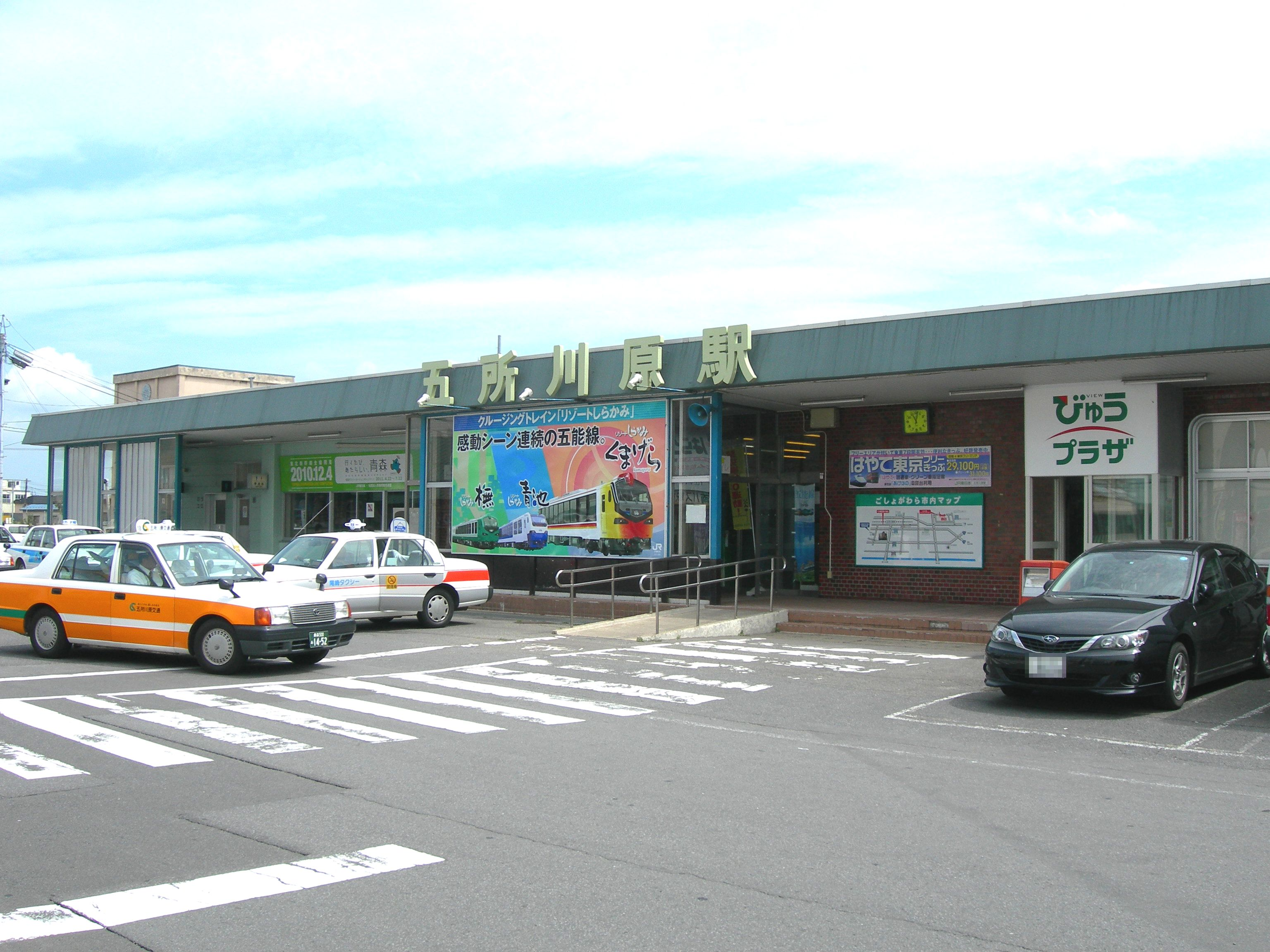 JR East Goshogawara Station on the Gono Line